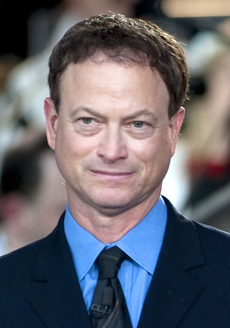 Actors Gary Sinise and Joe Mantegna co-host the 2011 National Memorial Day Concert at the U.S. Capitol in Washington, D.C., May 29, 2011.